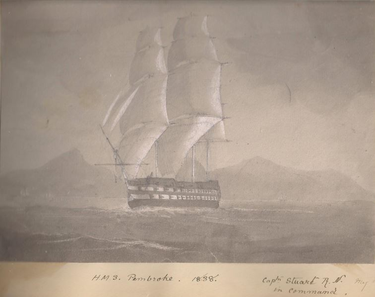 Original artwork by a member of the family of Captain Thomas Stuart RN, who commanded this ship.